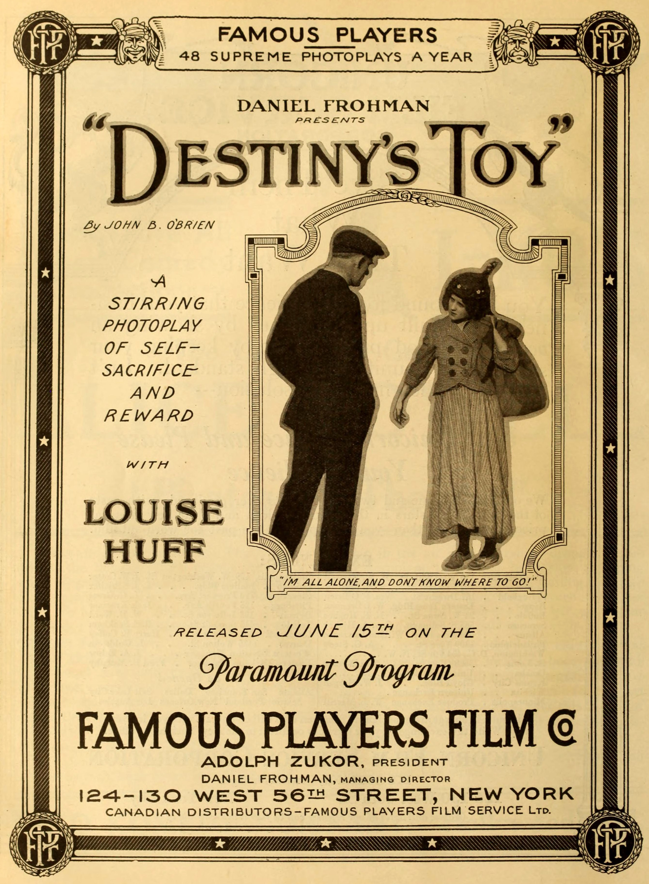 Advertisement in The Moving Picture World for the American film Destiny's Toy (1916) with Louise Huff.